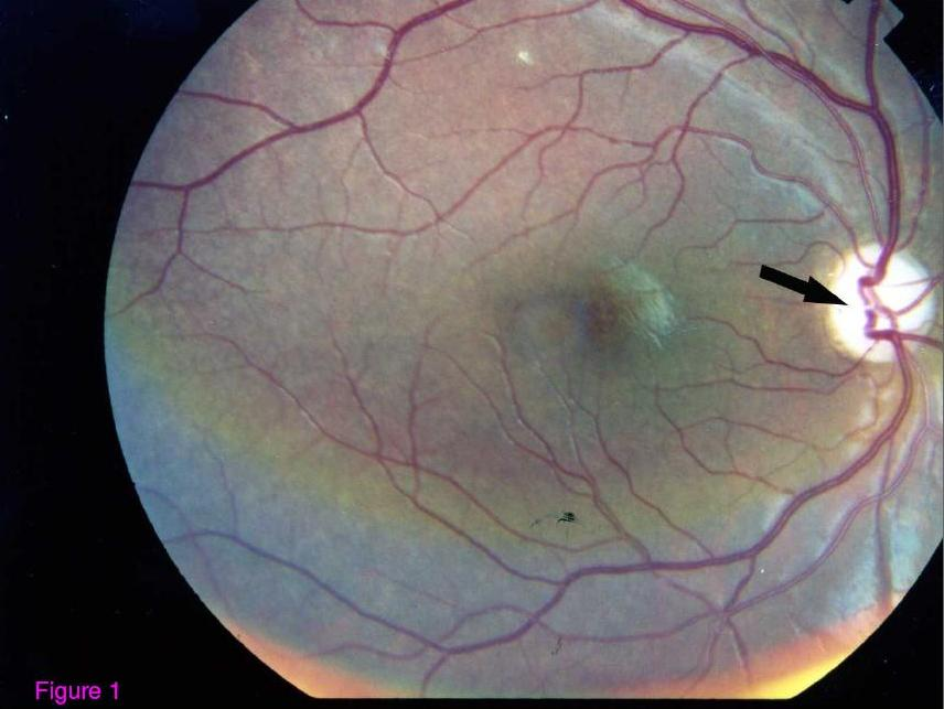 Photographic image of the patient right eye showing optic atrophy without diabetic retinopathy.